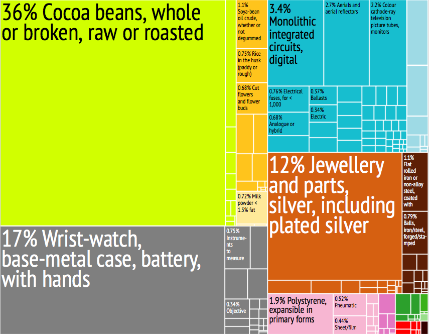 Sao Tome and Principe Export Treemap from MIT Harvard Economic Complexity Observatory